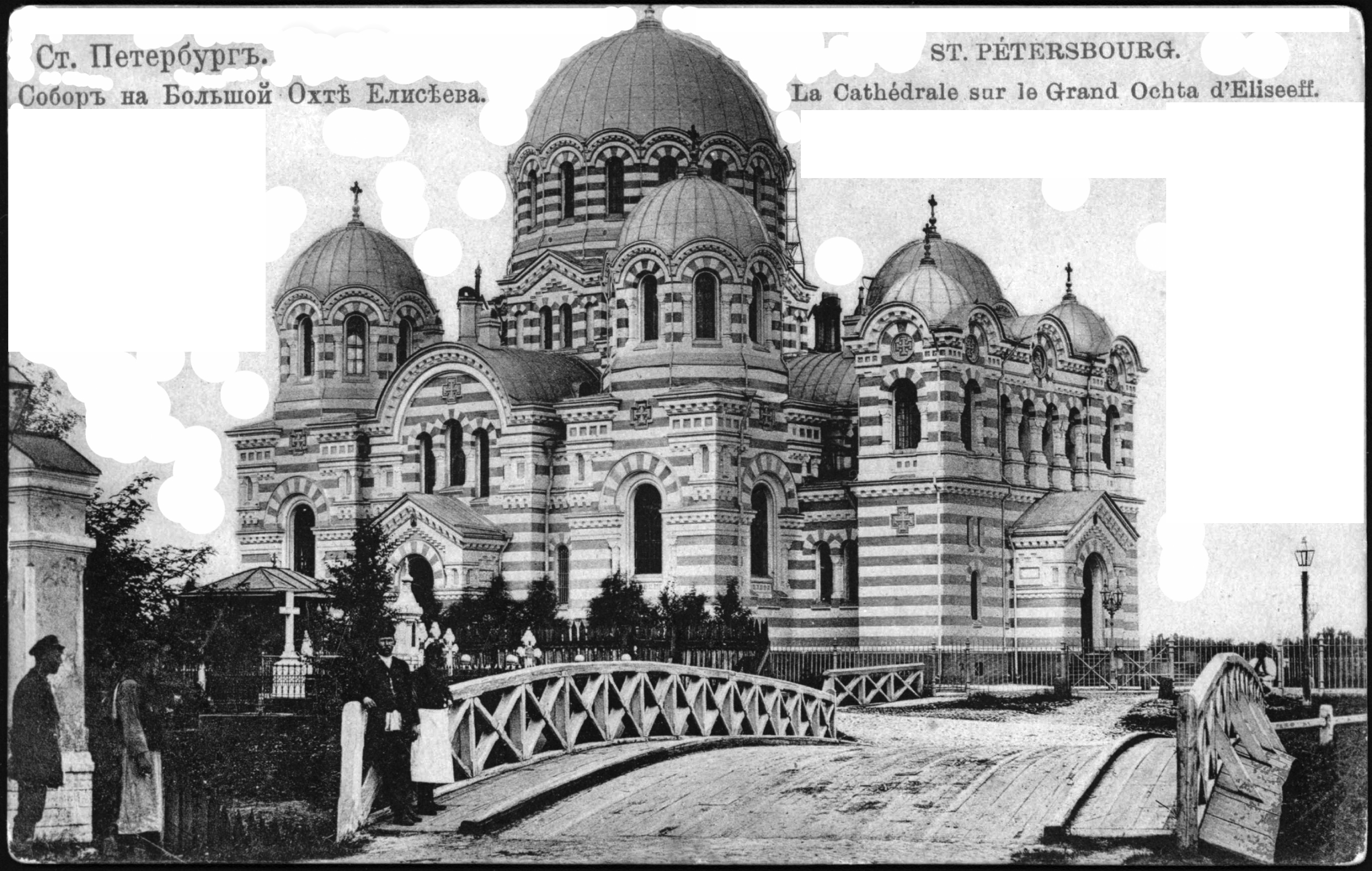 The Church in the name of the Kazan icon of the Mother of God in St. Petersburg on the Large Ohta, 1900-1914